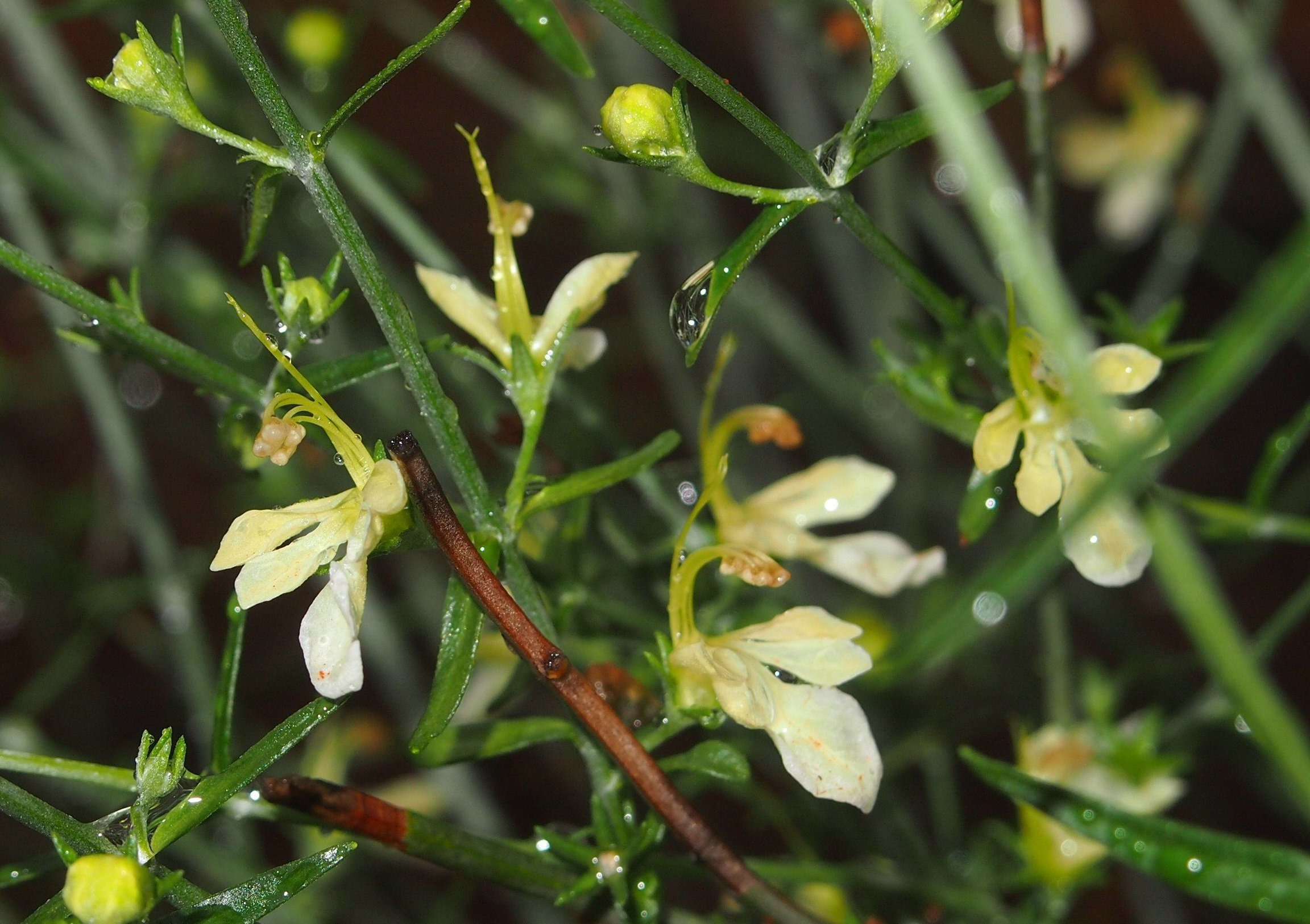 Teucrium racemosum flowers